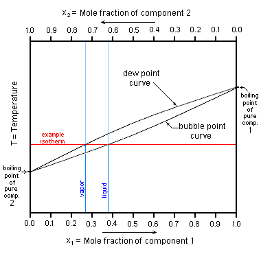 Binary Boiling Point Diagram (graph) of a hypothetical mixture of two components without an azeotrope. An example isotherm line is shown to compare vapor and liquid compositions at that temperature.